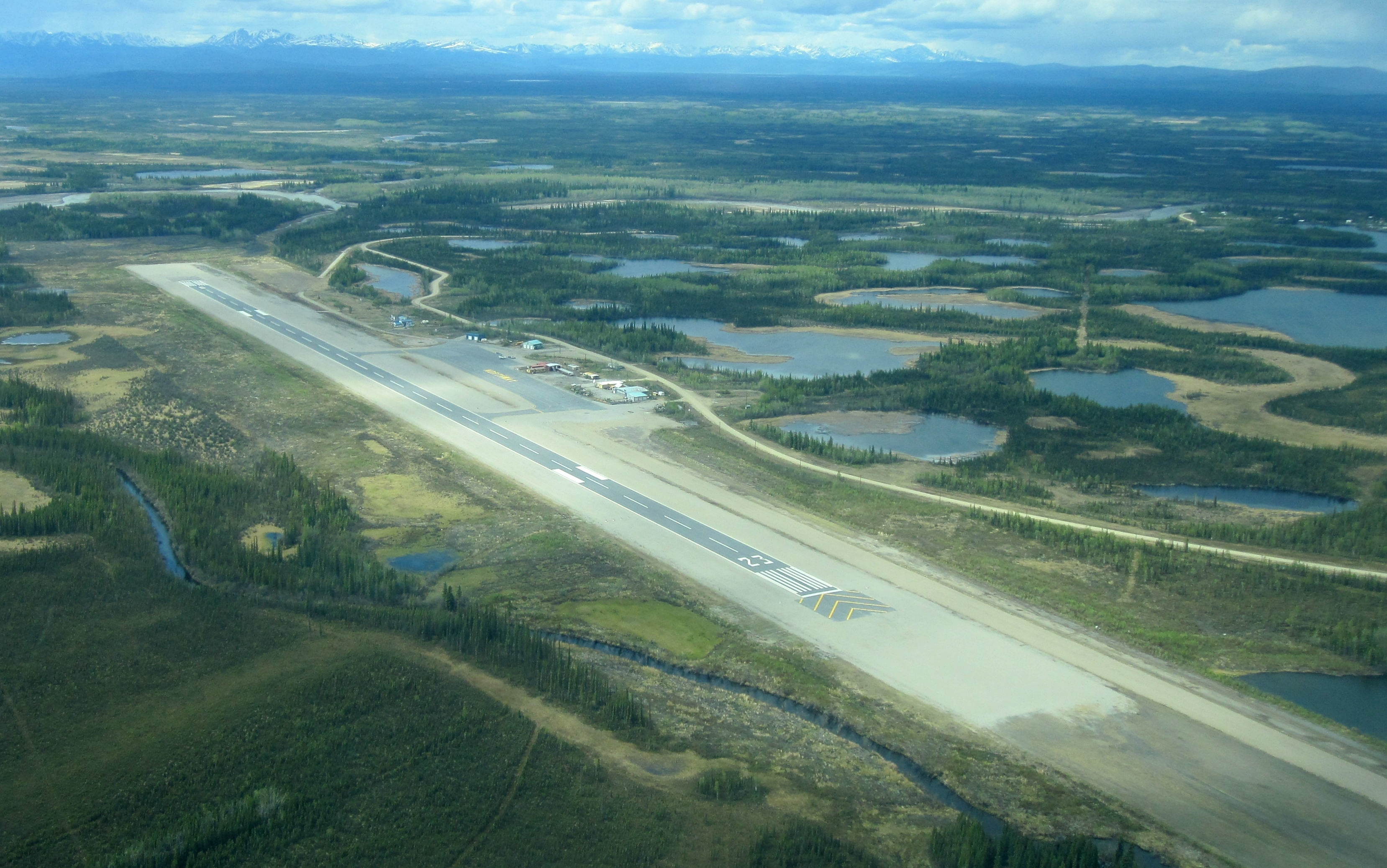 Northway Airport, Northway, Alaska. May 28, 2012.